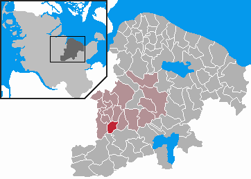 This map shows the area of the Gemeinde (municipality) Nettelsee in the Kreis (district) Plön, Schleswig-Holstein, Germany.